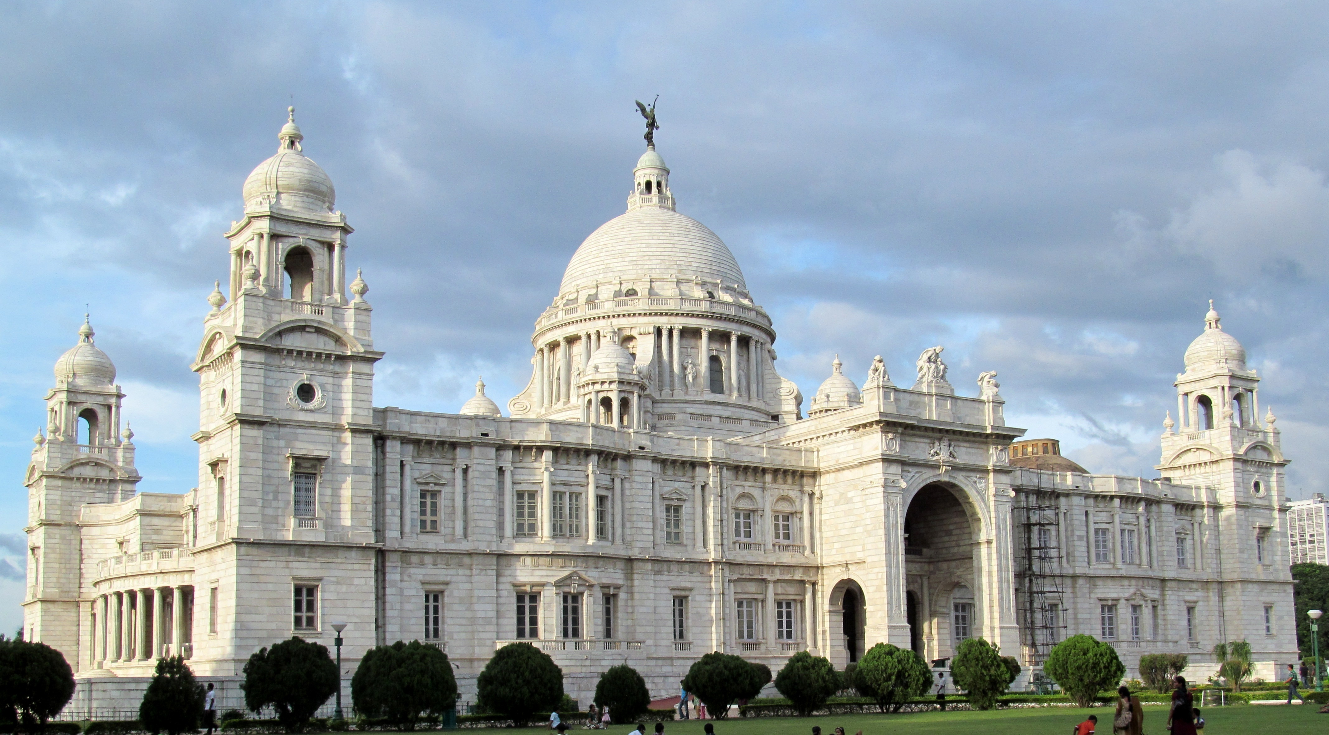 The Victoria Memorial, officially the Victoria Memorial Hall, is a memorial building dedicated to Victoria, Queen of the United Kingdom and Empress of India, which is located in Kolkata, India – the capital of West Bengal and a former capital of British India.